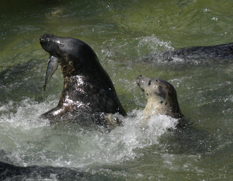 Frenzy at feeding time. National Seal Sanctuary, Gweek, England